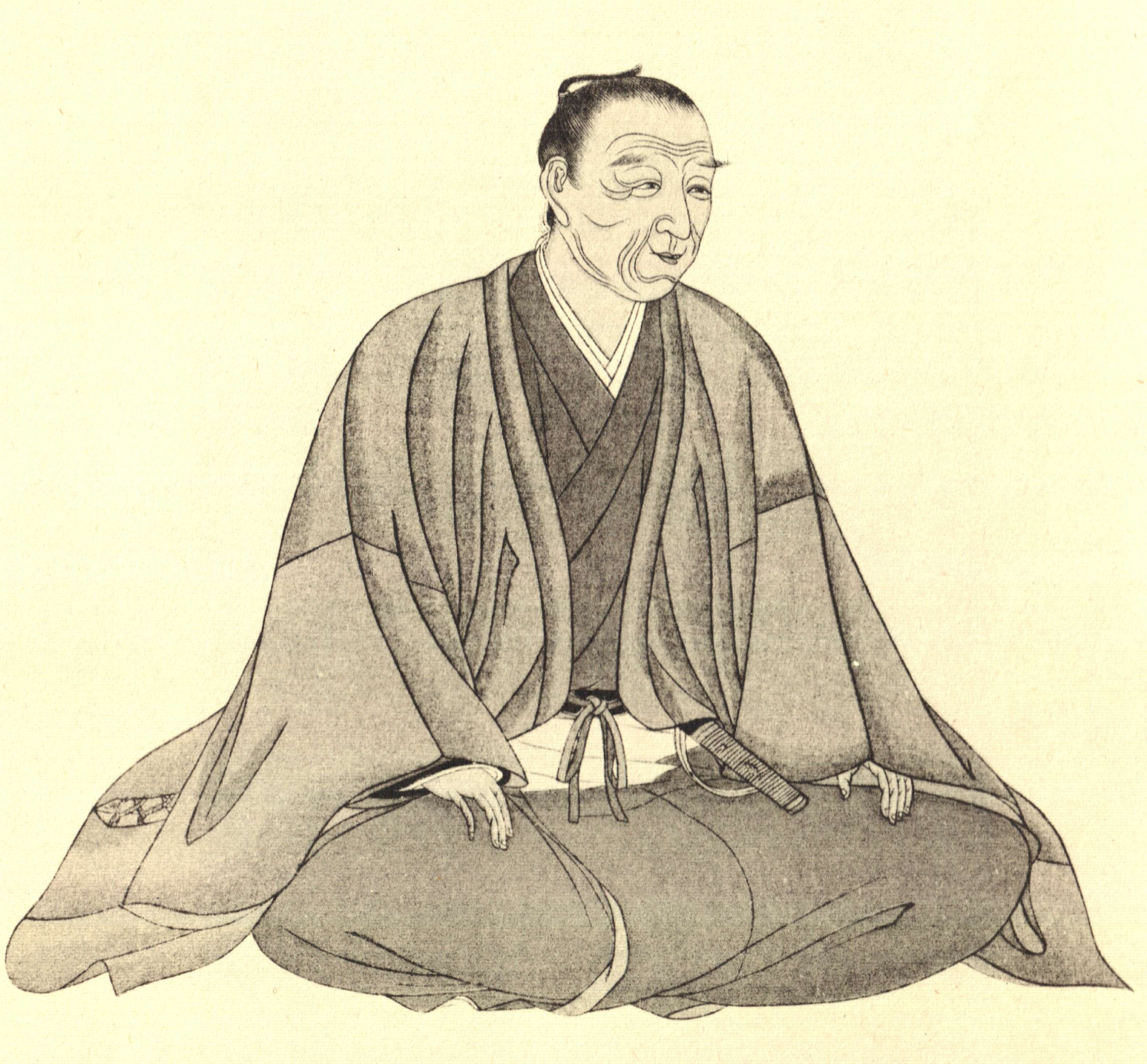 Japanese Book 『國文学名家肖像集』 Published by Hakubi-Sya(博美社) published in 1939.5.25